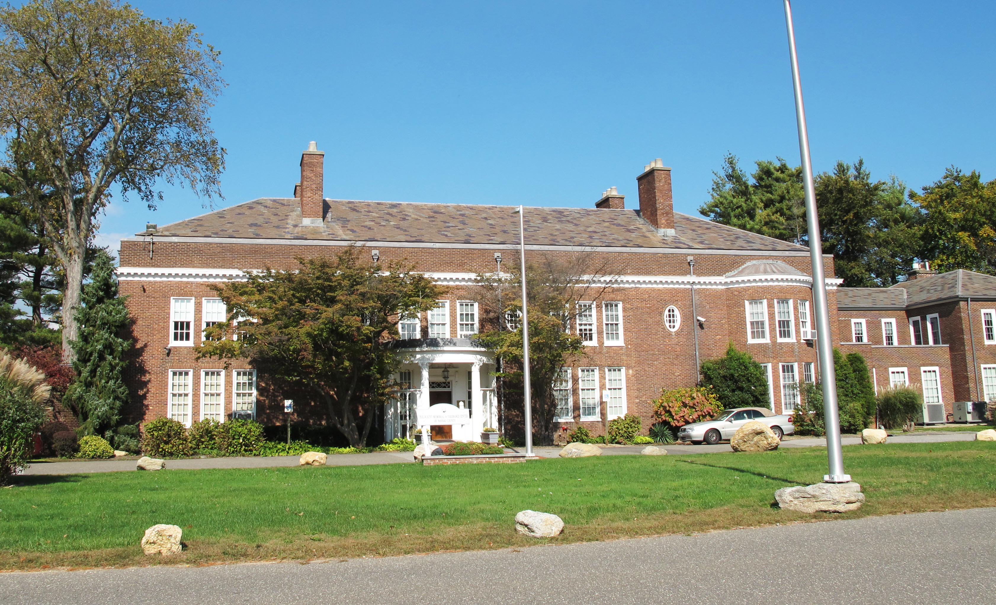 The mansion of the Harold Pratt estate, Welwyn, at Glen Cove, Long Island, New York State, USA. Current a Holocaust museum